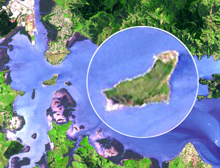 Satellite image of Whangarei, New Zealand, and surrounding areas. Granule ID: SC:AST_L1A.003:2032467158